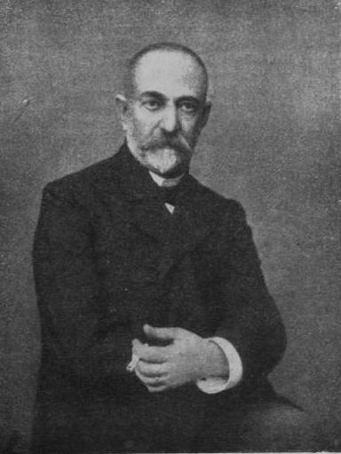 Photo of István Petelei